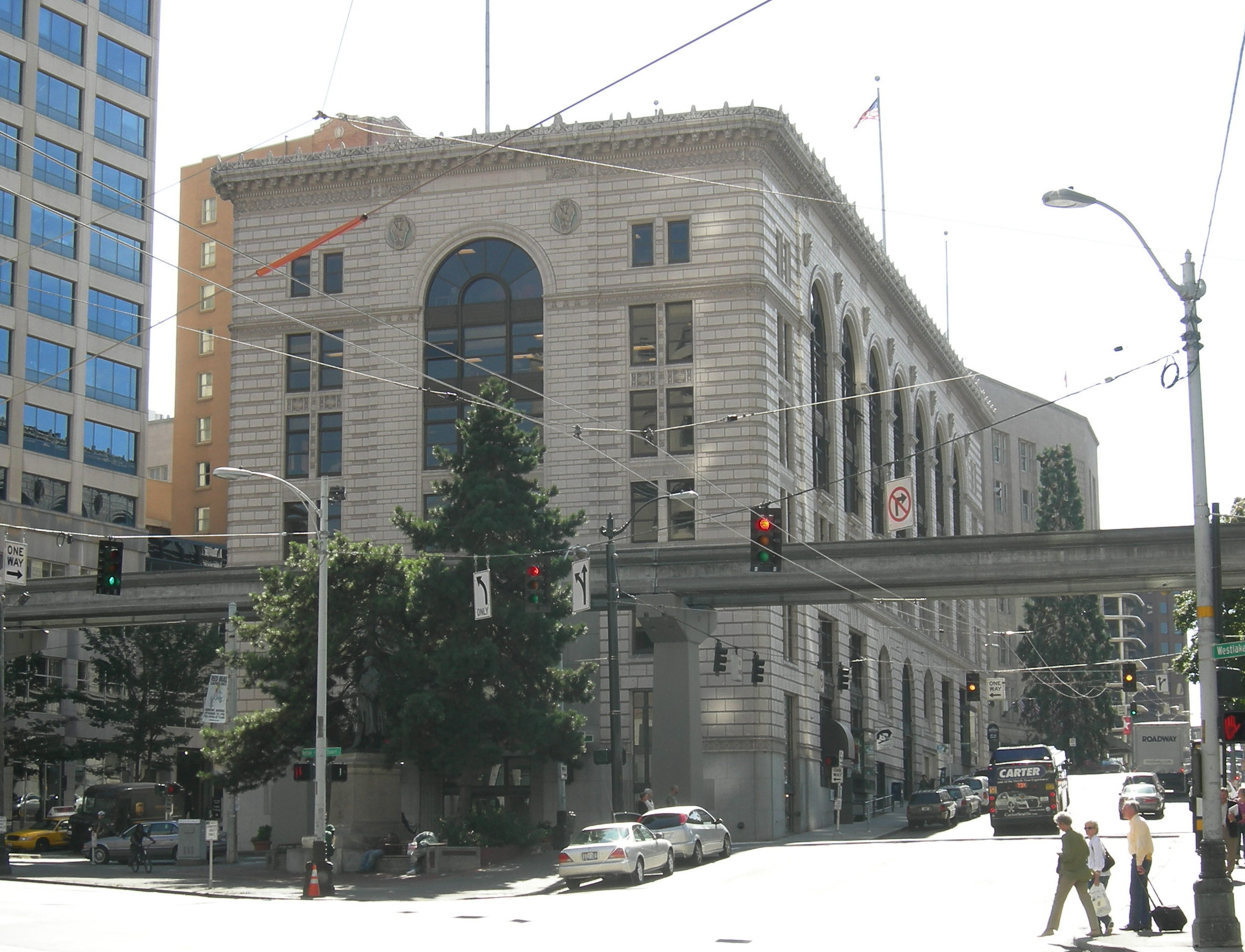 Fifth Avenue side of the old Seattle Times Building, downtown Seattle, Washington. The building is now called the Times Square building and is a mix of offices and retail. It is on the National Register of Historic Places. McGraw Square, the small traffic island in the left foreground of this photo, is an official city landmark, as are the Monorail and the Times Square building itself. Several years later, the park was expanded: the portion of Westlake Avenue at left became part of the park. Between that and the Times building, the Seattle Center Monorail track runs across; behind, peeking out at right is Macy's (formerly the Bon Marché).